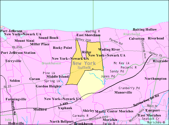 U.S. Census 2000 reference map for Ridge